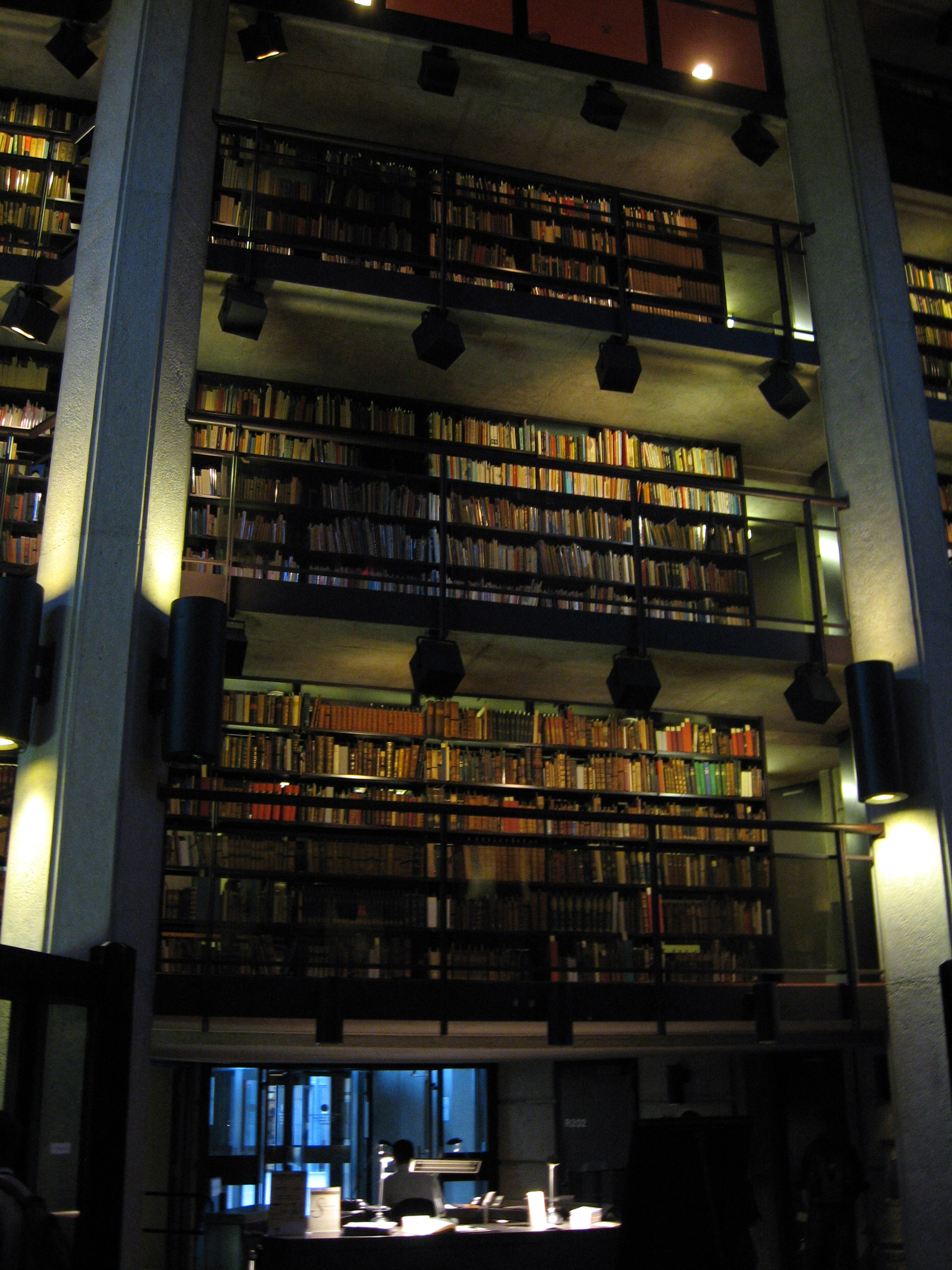 The University of Toronto's Thomas Fisher Rare Book Library.